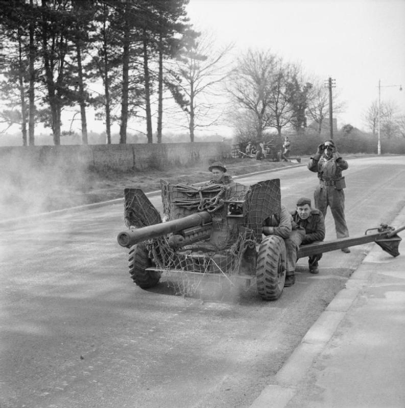 Canadian Forces in the United Kingdom 1939-45 Canadian troops man a 6-pdr anti-tank gun during Exercise 'Spartan', 9 March 1943.